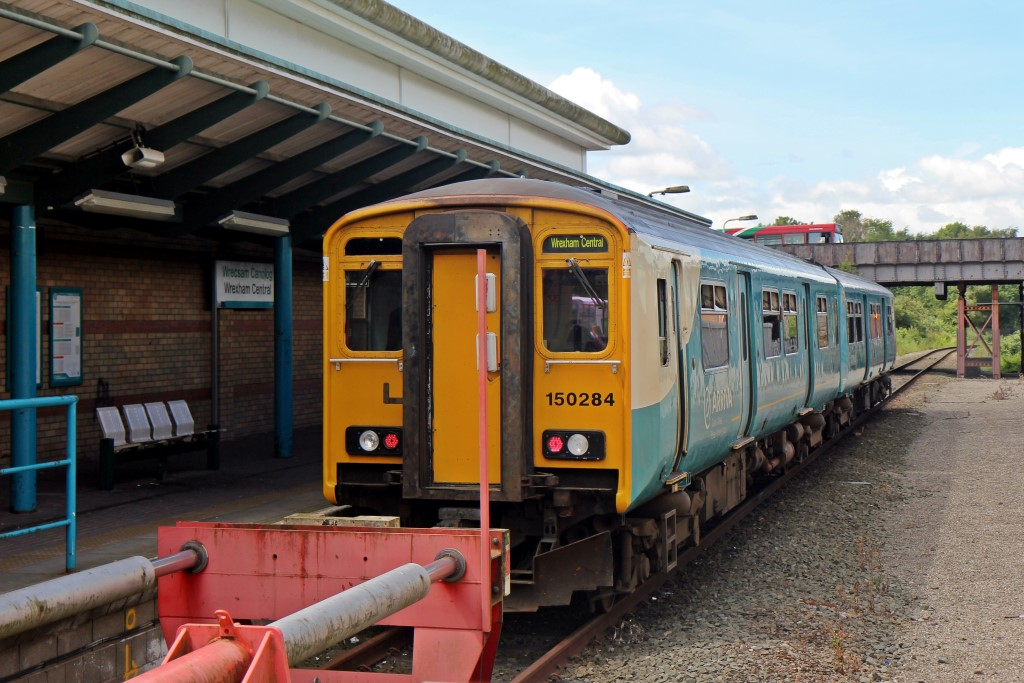 Arriva Trains Wales Class 150, 150284, Wrexham Central railway station